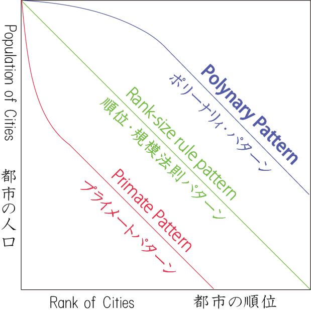 This graph indicates the relation between cities' population and cities' rank. This graph is a log-log graph.